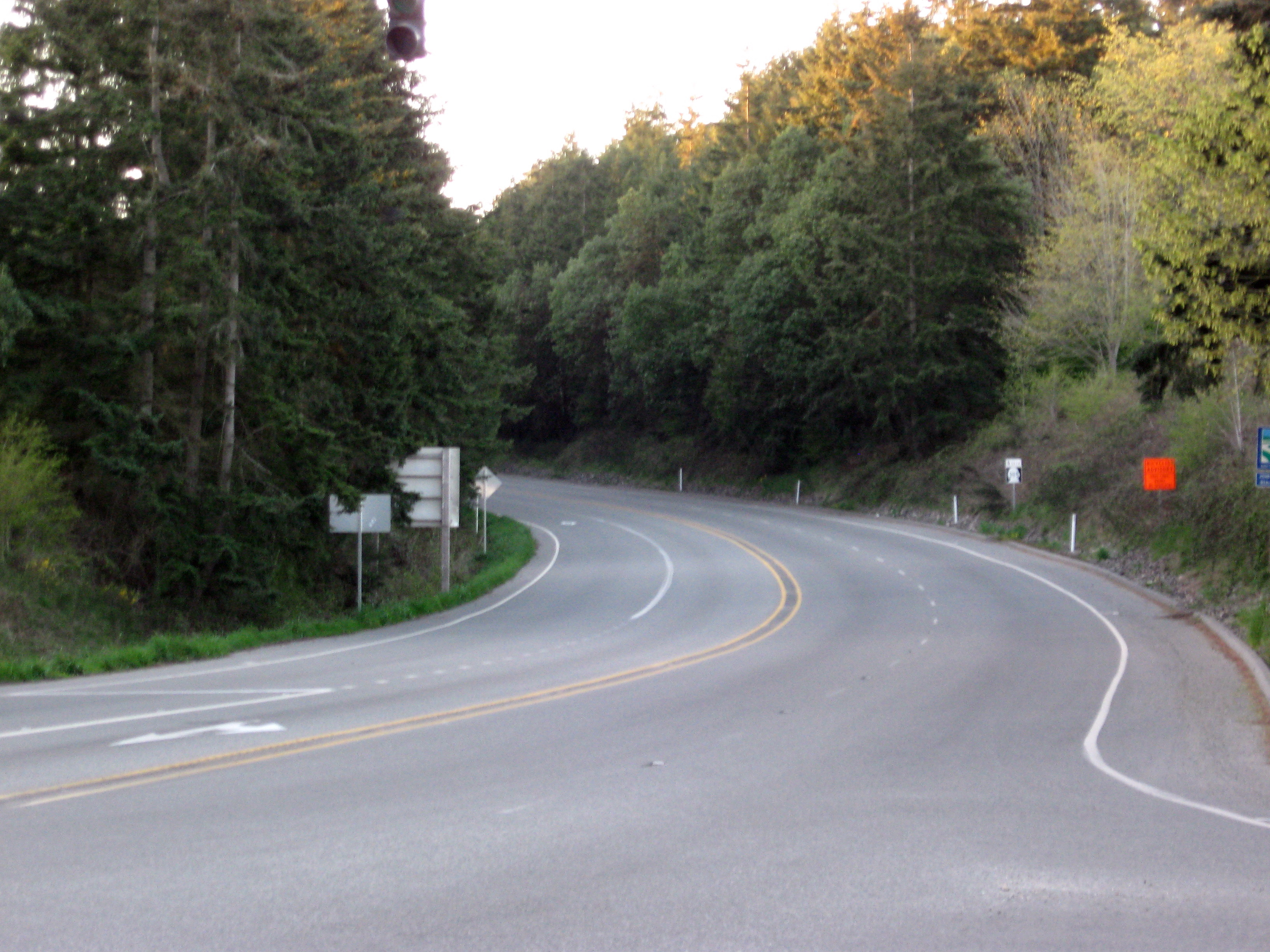 Eastern beginning of Washington Route 305